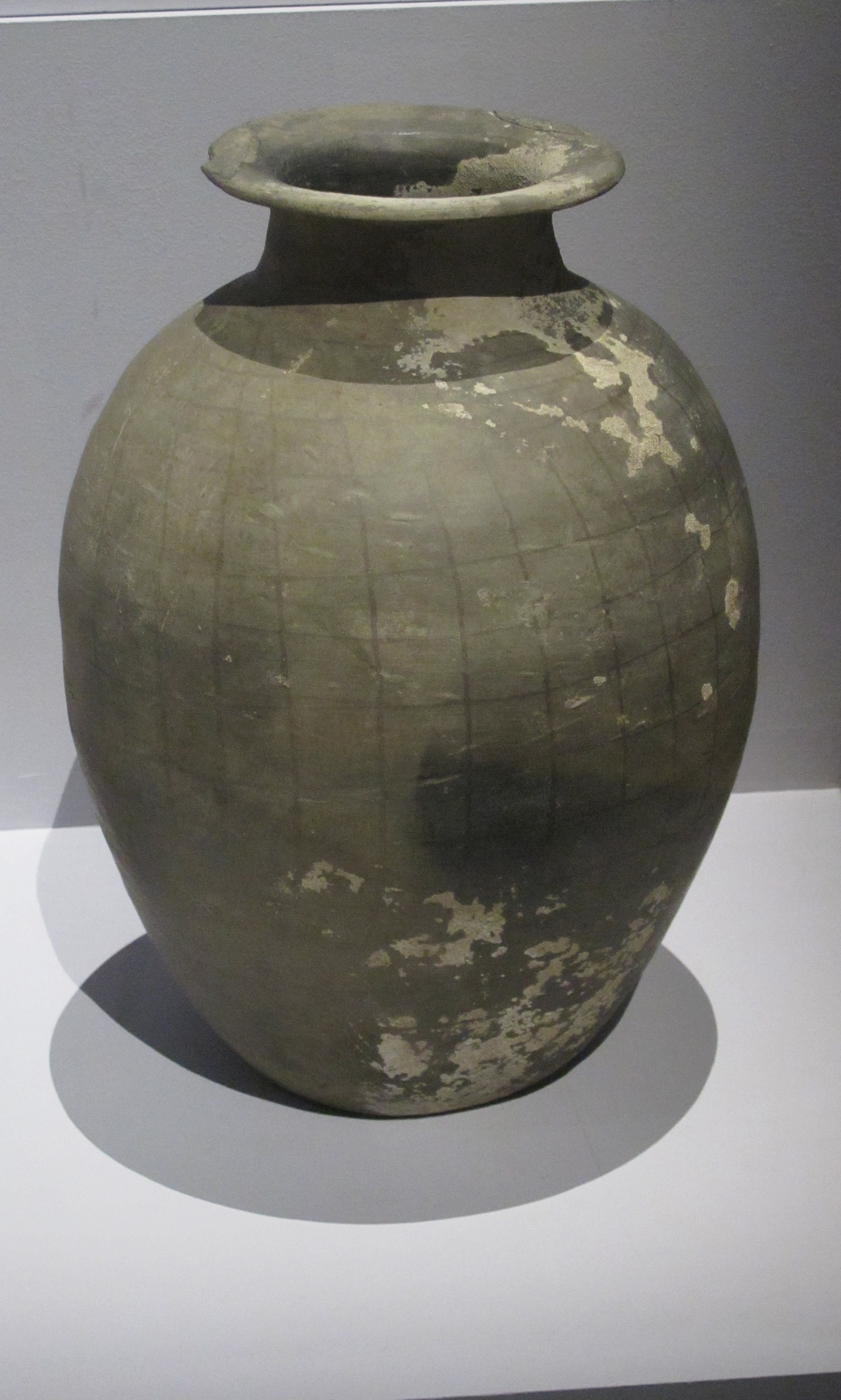 Jar, stoneware, H. 35.7 cm. Kingdom of Koguryo, 6th century. Origin: Pyongyang. National Museum of Korea. Inv 13882. Gray jar decorated with a checkered grid using a matrix. Reference: Koo, Ilhoe, Kim Youngna, Kim Kyudong, Sangdeok Yoon, Kyungdo Park, Kim Hyunjung, Im Jin A and Park Hyewon : La Terre, Le Feu, L'Esprit : chefs-d'œuvre de la céramique coréenne (exposition « La Terre, Le Feu, L'Esprit. Chefs-d'œuvre de la céramique coréenne », Paris, 2016), Réunion des musées nationaux, 2016, 223 p. (ISBN 978-2-7118-6335-8), page 32.